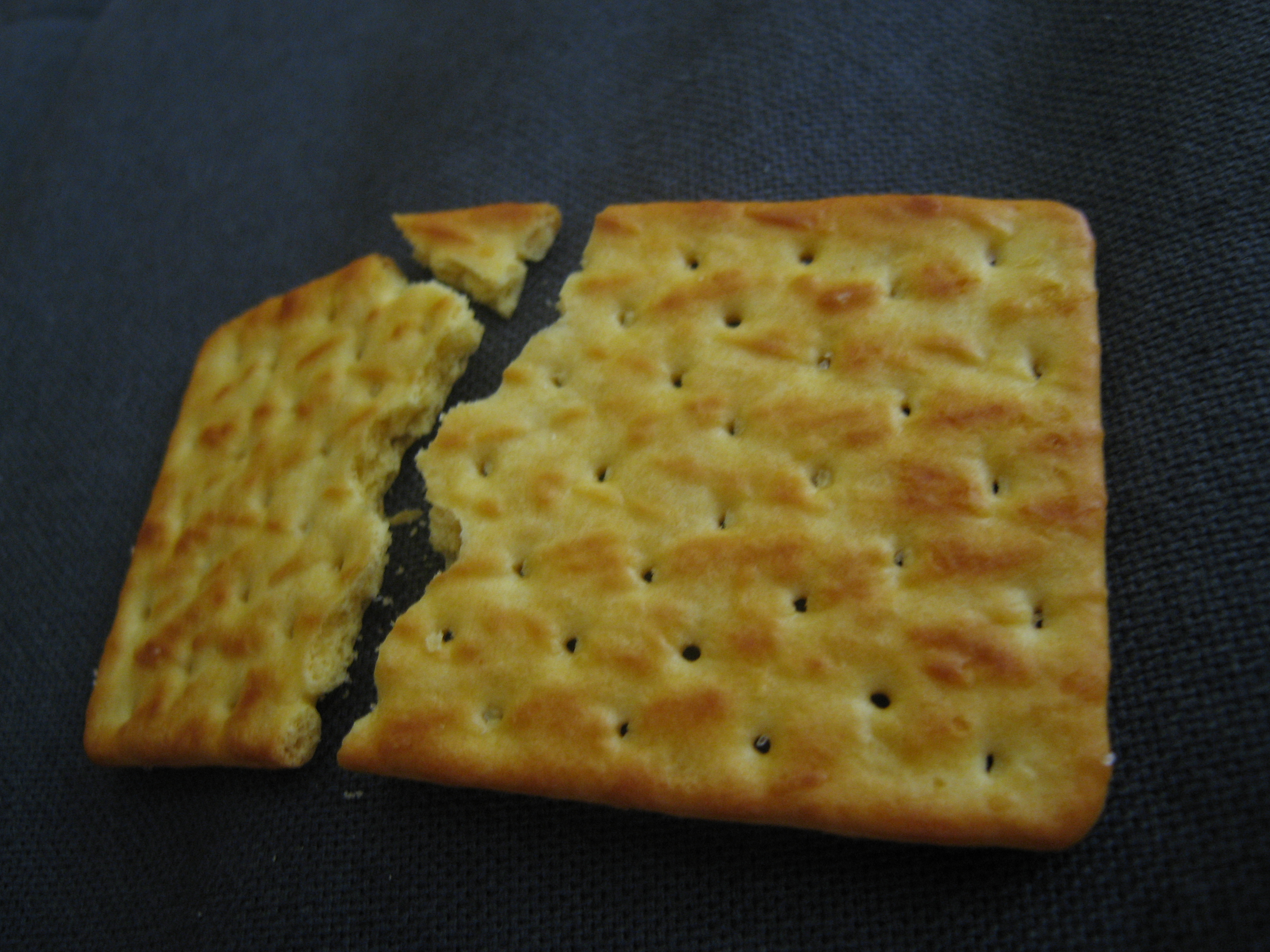 A broken cracker